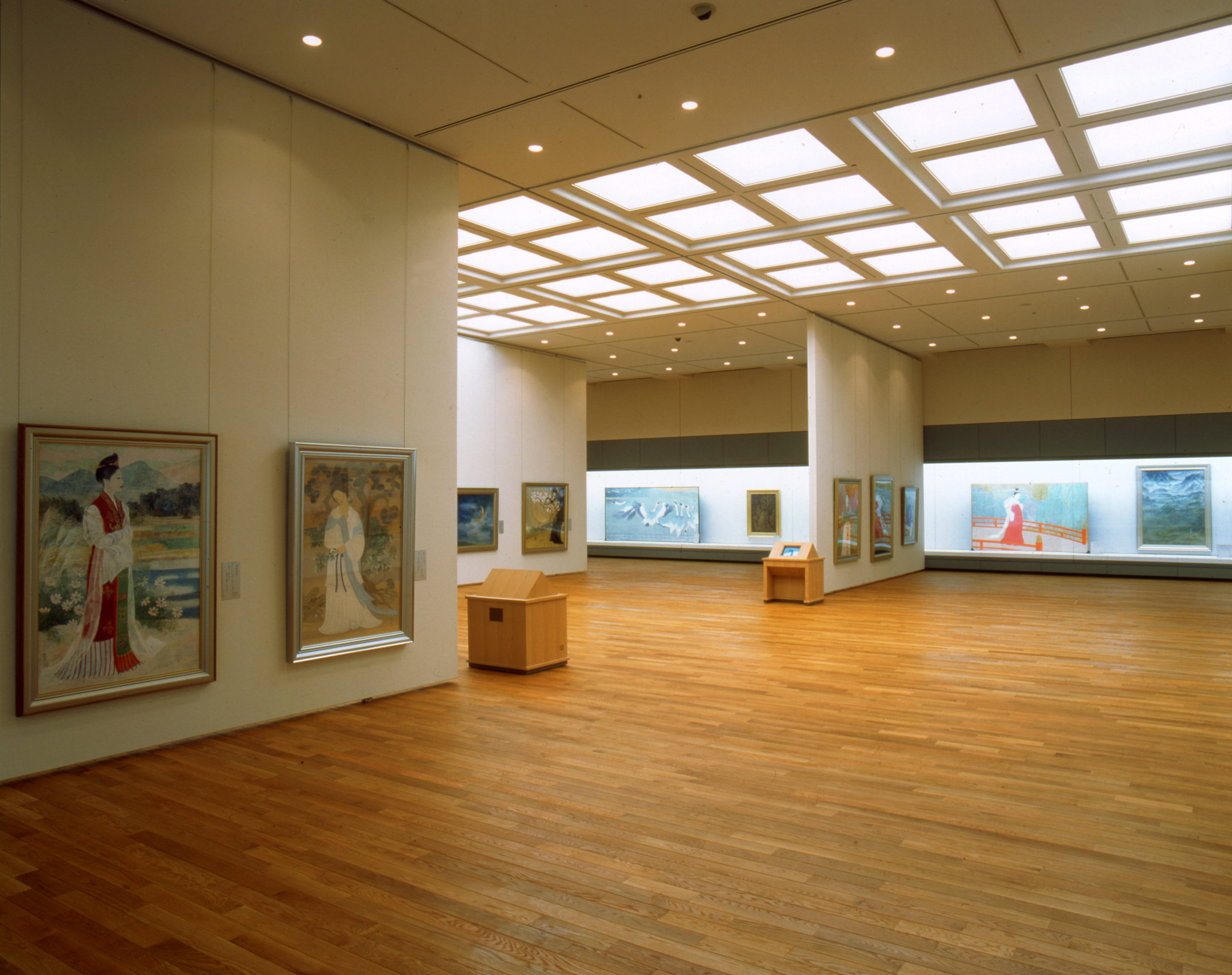 Nara Prefecture Complex of Manyo Culture